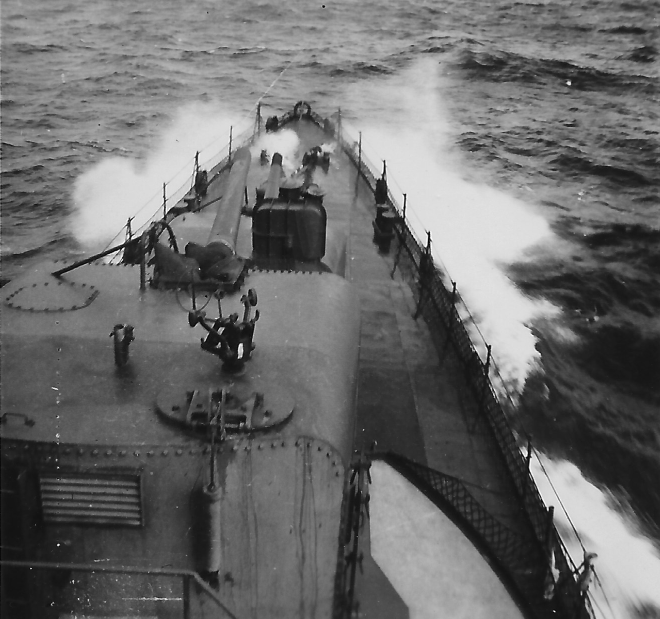 View from bridge of Fletcher-class destroyer underway